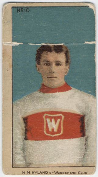 Harry Hyland These cards were placed in cigarette packages c. 1910-12 and were collected just as hockey & baseball cards from bubble gum packages are today. Inscription: Inscribed recto: u.l. "No. 10" in print, lower edge "H.M. HYLAND of Wanderers Club" in print; verso top to bottom "HOCKEY SERIES / H..H. HYLAND; / Montreal, / Has play with / Shamrock, / 1908 to 1909 / Wanderers, / 1910" in print.